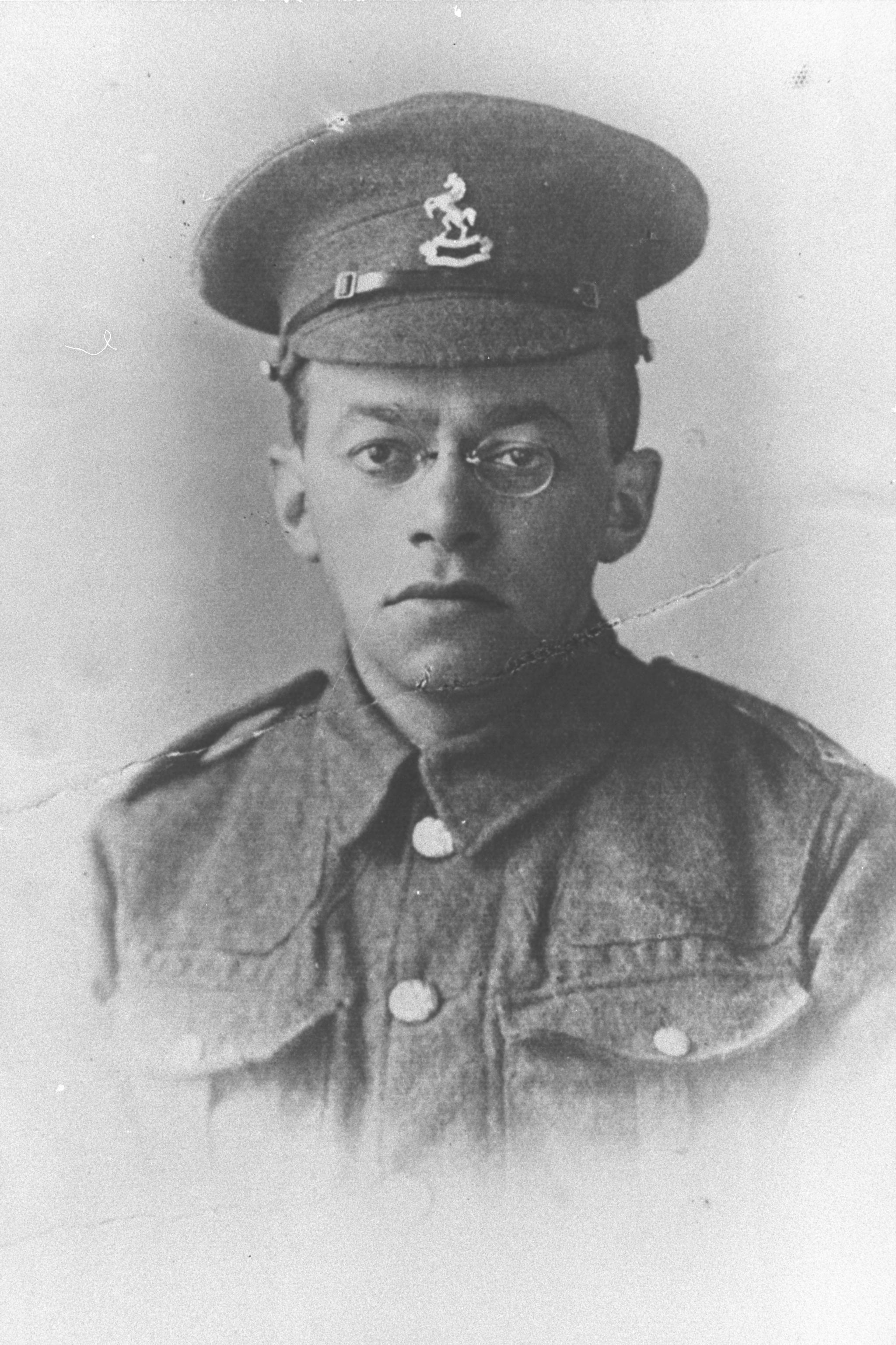 ZEEV JABOTINSKY IN ARMY UNIFORM DURING WORLD WAR 1. פורטרט, זאב ז'בוטינסקי במדים צבאיים, בזמן מלחמת העולם הראשונה.